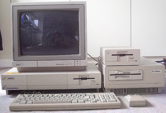 Amiga 1000 system including RGB-monitor (A1081), external disk drive (A1010) and PC-extension "Sidecar" (A1060)